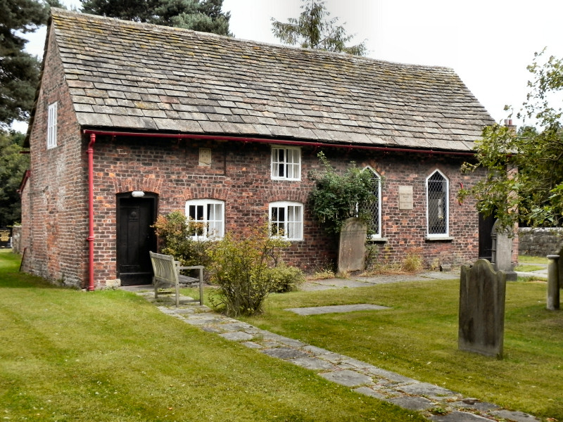 Photograph of Great Warford Baptist Chapel, Cheshire